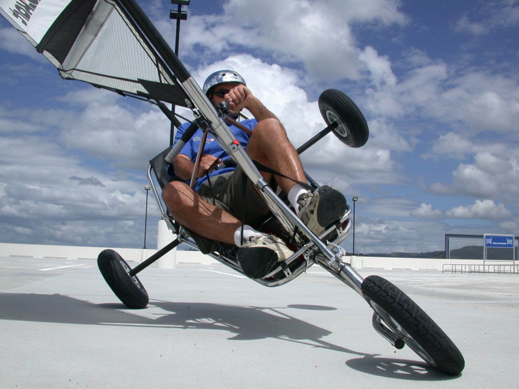 Blokart